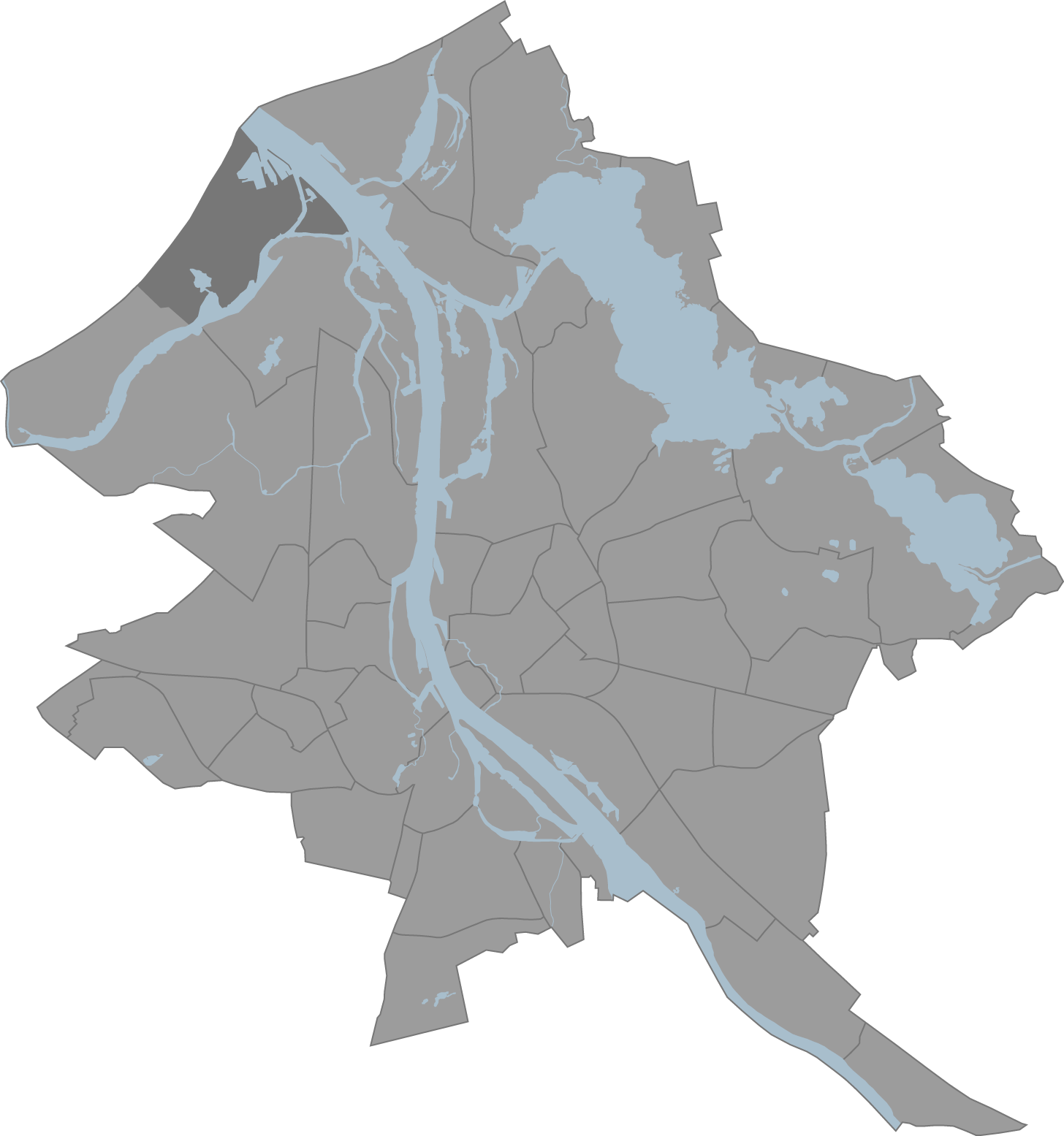 A map of Riga, Latvia with the eponymous commune highlighted